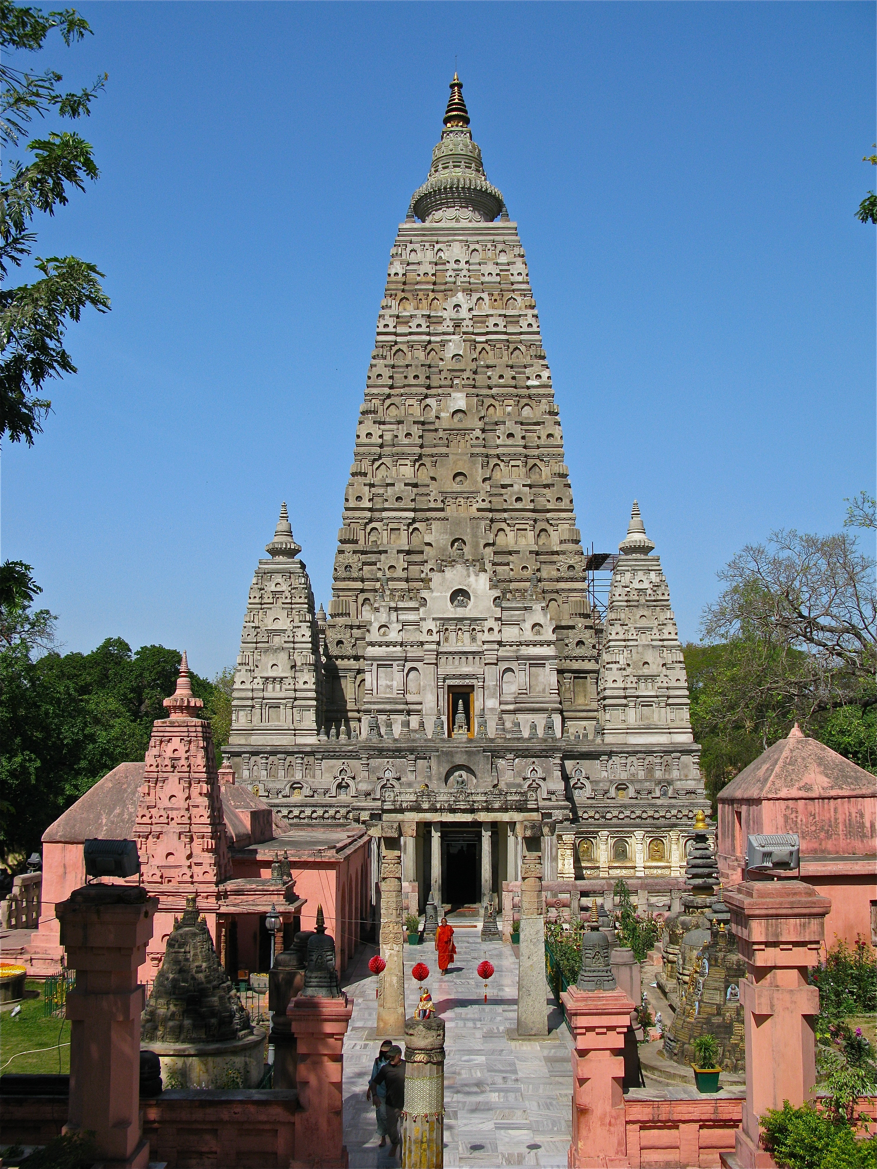 Mahabodhi Temple in Bodh Gaya.